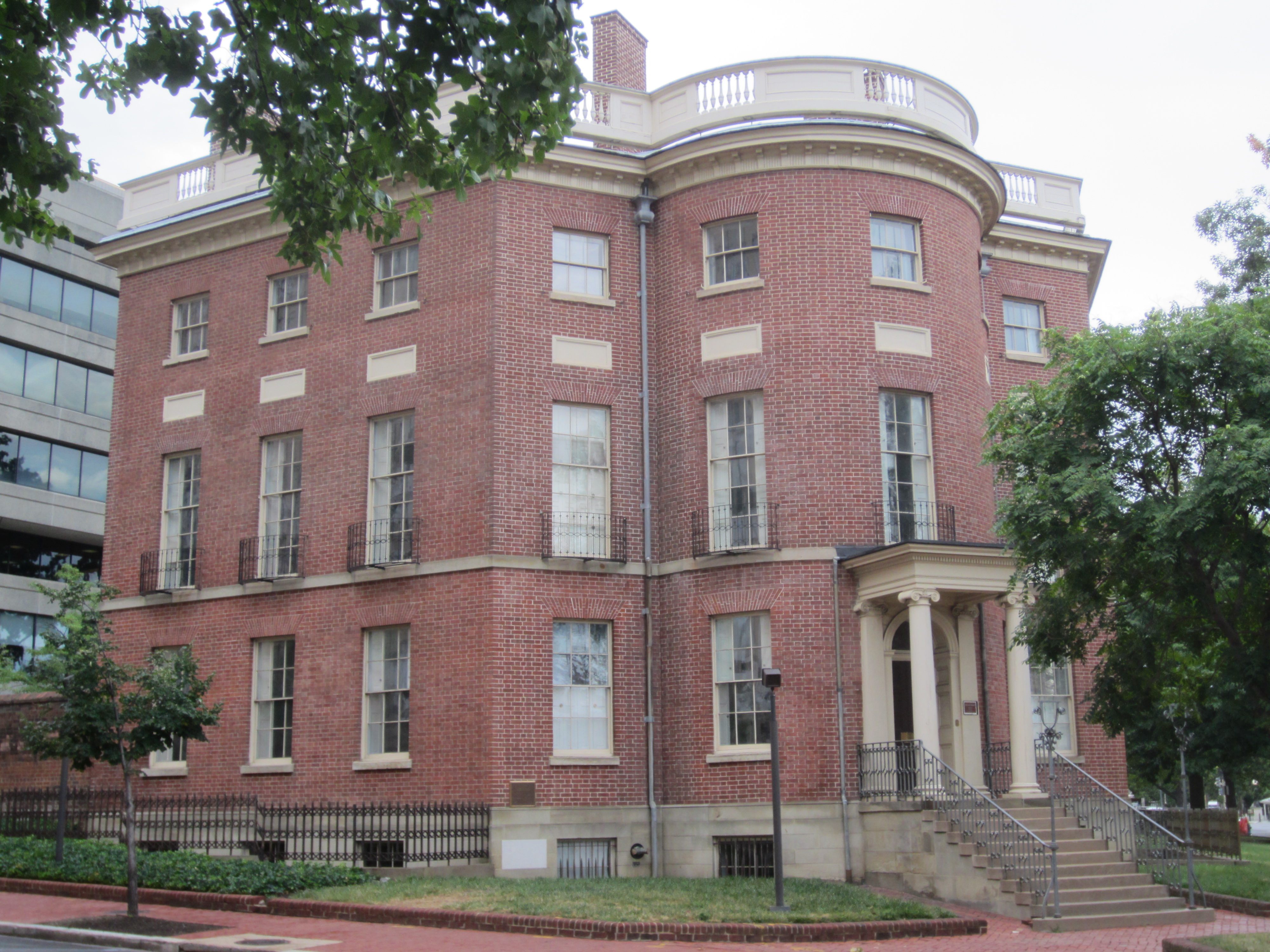 The Octagon House, Washington, D.C. (2012)